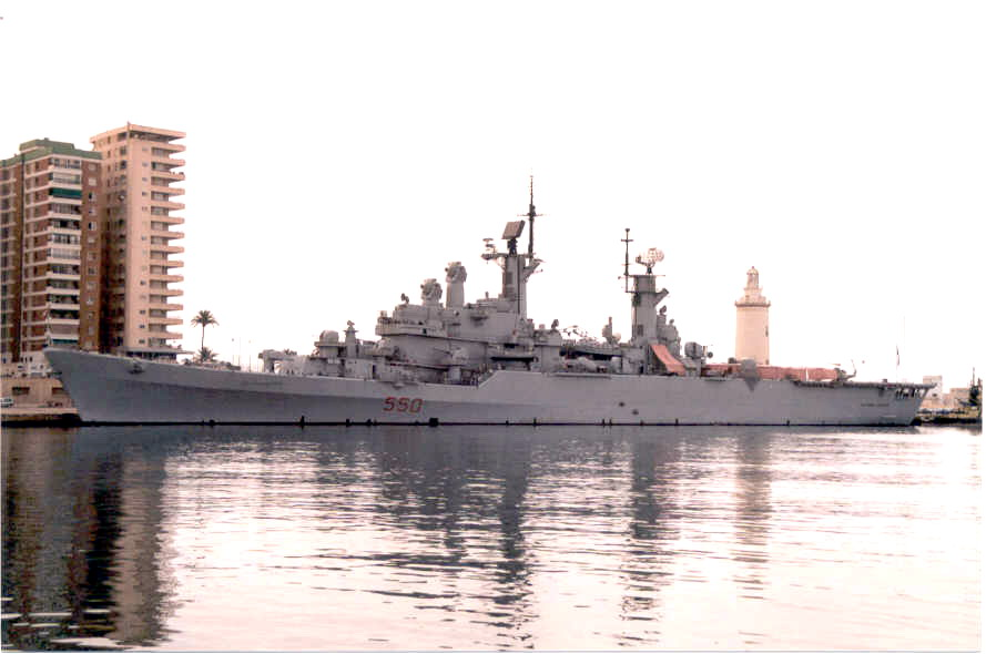 Italian cruiser Vittorio Veneto in the port of Malaga